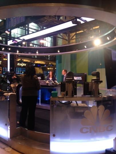 @ New York Stock Exchange (posted via FlickSquare)